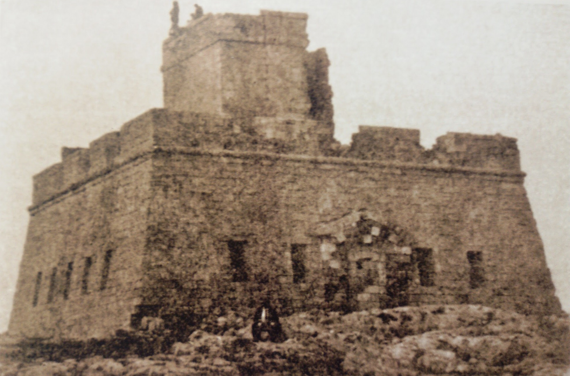 The only known photograph of the second Marsalforn Tower (built c. 1720, demolished 1915)